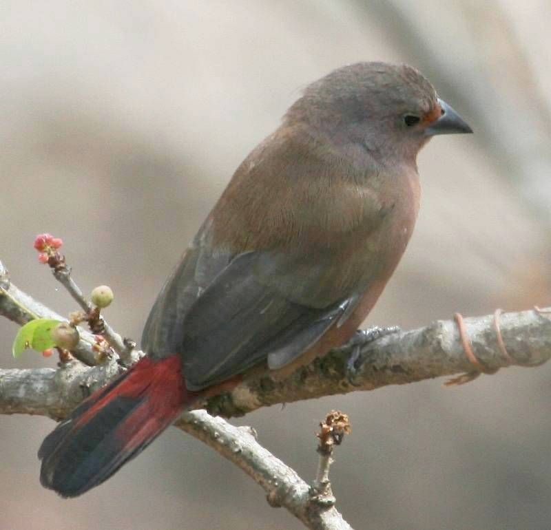 Location: Female Jameson's Firefinch (Lagonosticta rhodopareia). Kruger National Park, South Africa.